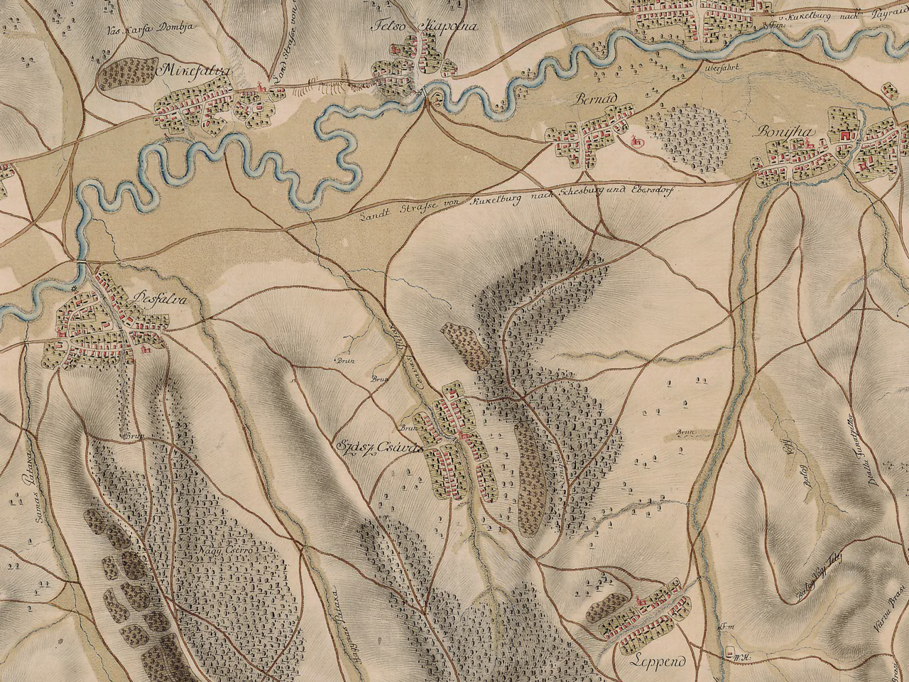 Excerpt from Grand Duchy of Transylvania, 1769-1773. Josephinische Landaufnahme pg.157